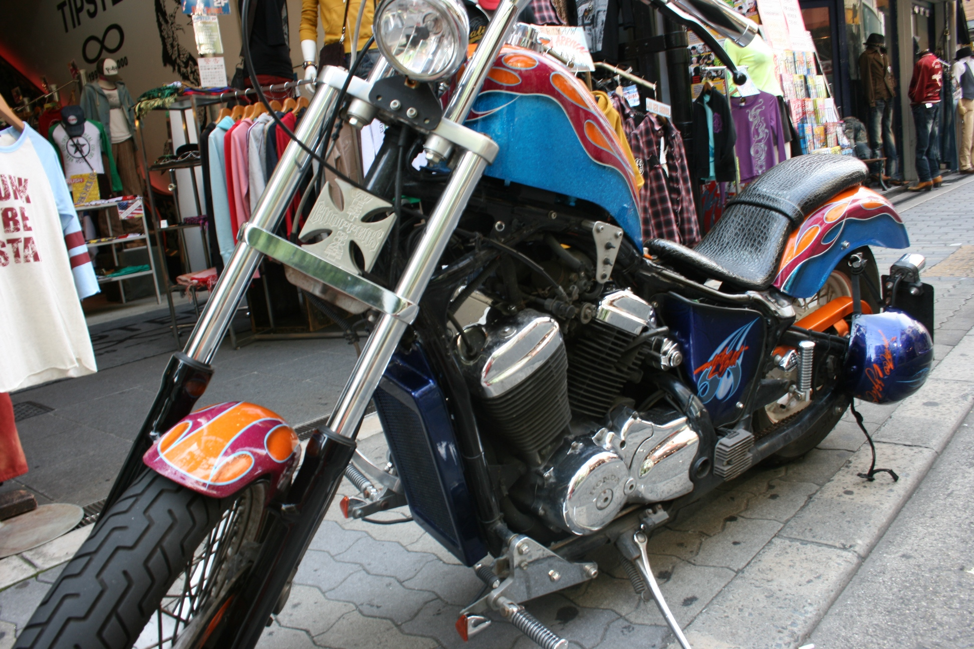 West Coast Choppers bike - Amerikamura in Osaka, Japan [Photographed by Ross Funtanilla]